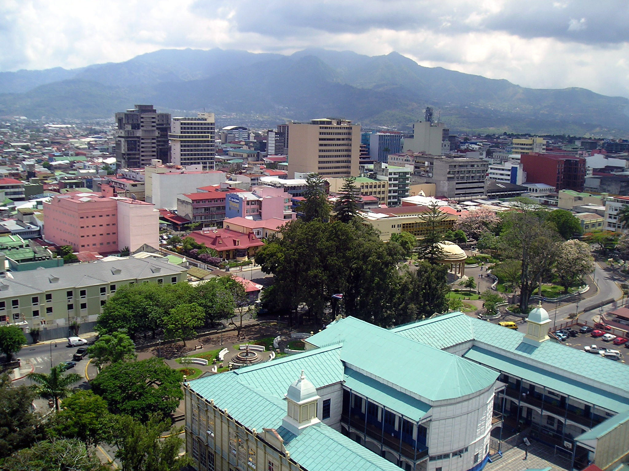 View of San José from the Museum of Jade